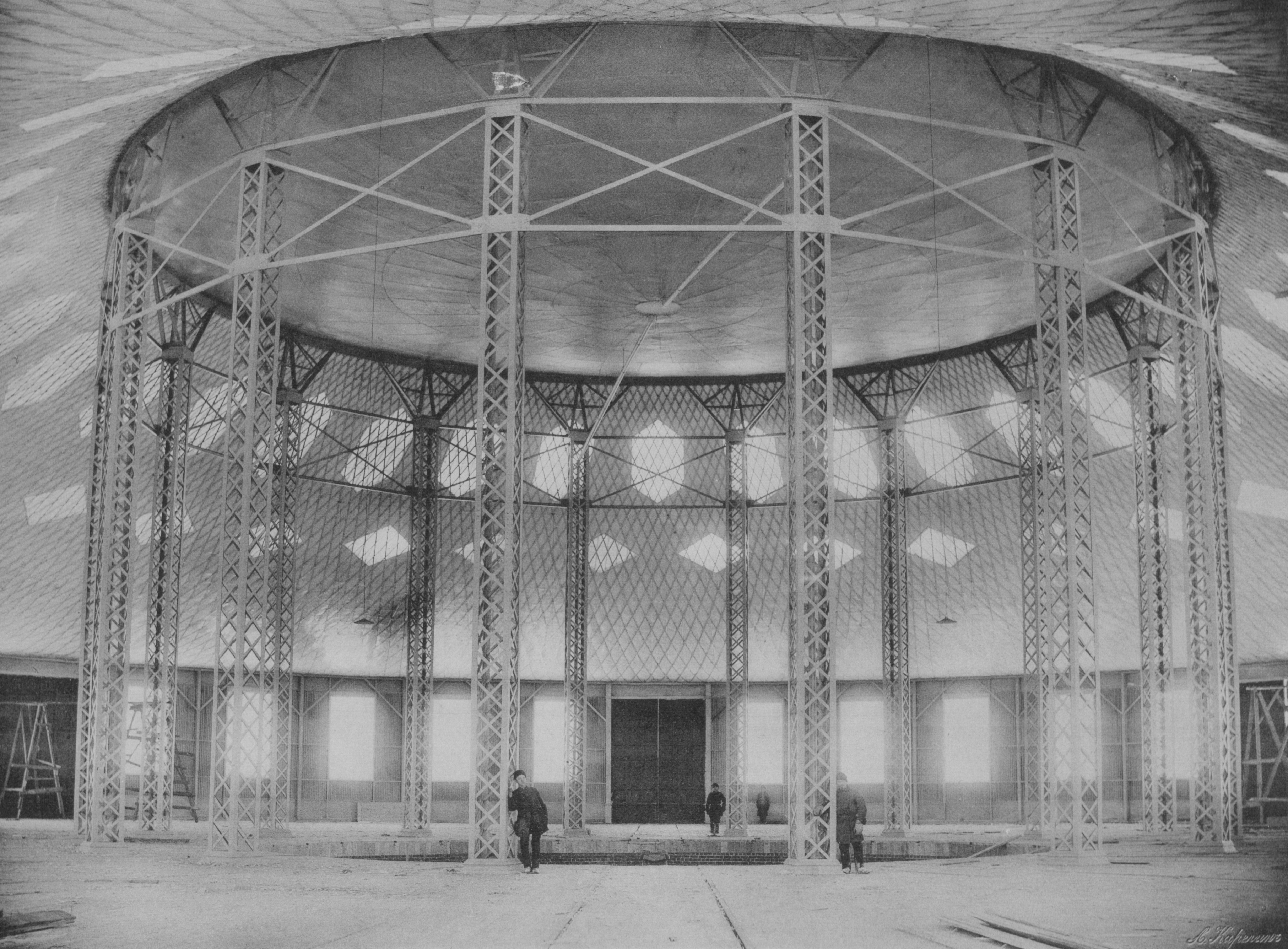 The Steel Membrane Roof and the Steel Tensile Lattice Shell of the Shukhov Rotunda, 1895